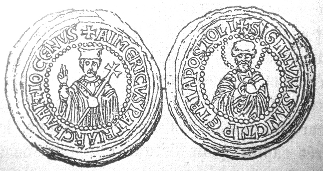 Seal [apparently a seal - Alfons Åberg (talk) 15:58, 17 August 2008 (UTC)] of Amalric Patriarch Of Antioch